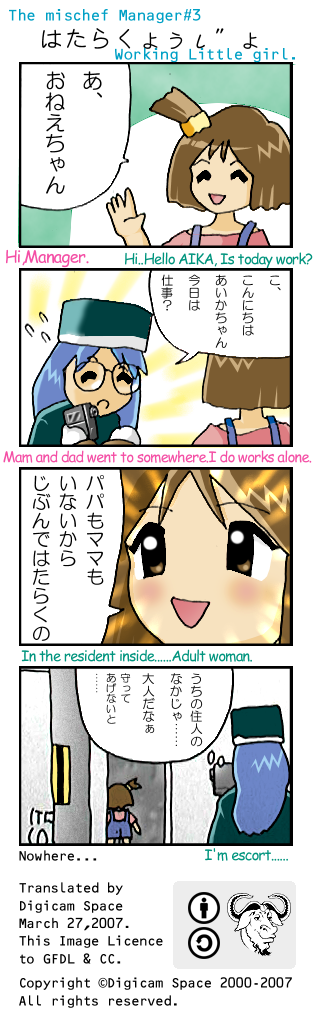 The Mischef Manager #3 Working Little girl